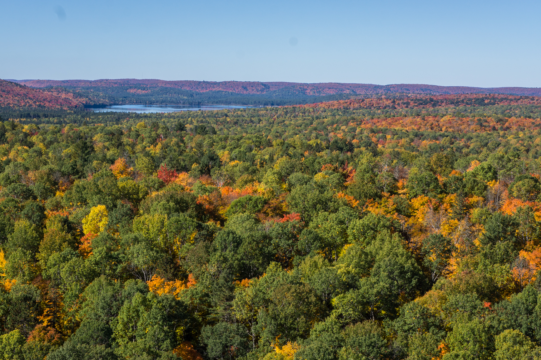 The Lookout